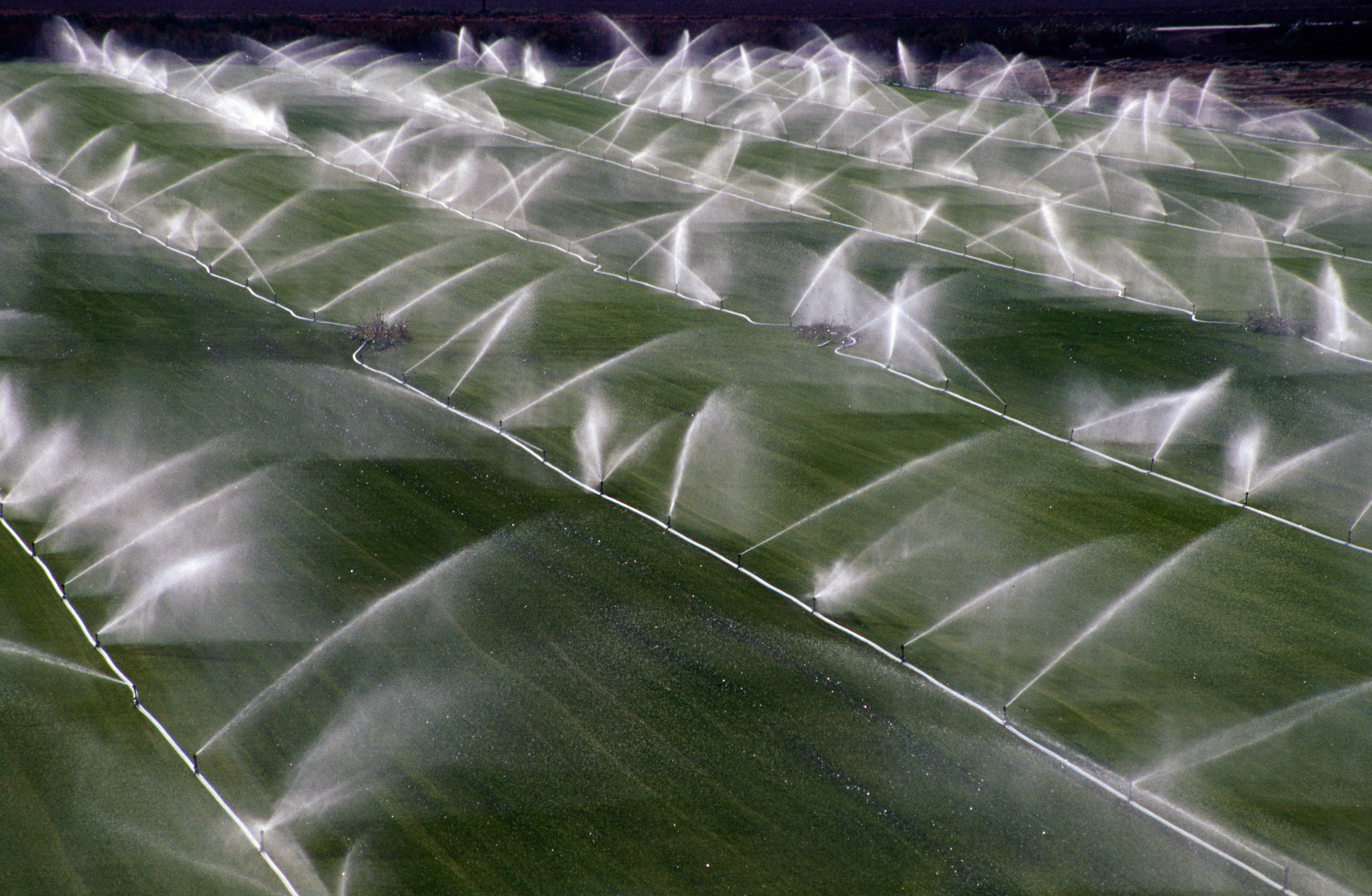 Aerial view of crop sprinklers near Rio Vista, California in the Sacramento-San Joaquin Delta region. The Delta is the hub of the State’s water distribution system, and supplies irrigation to more than 1,800 agriculture users in the region. Photo taken July 15, 2004.